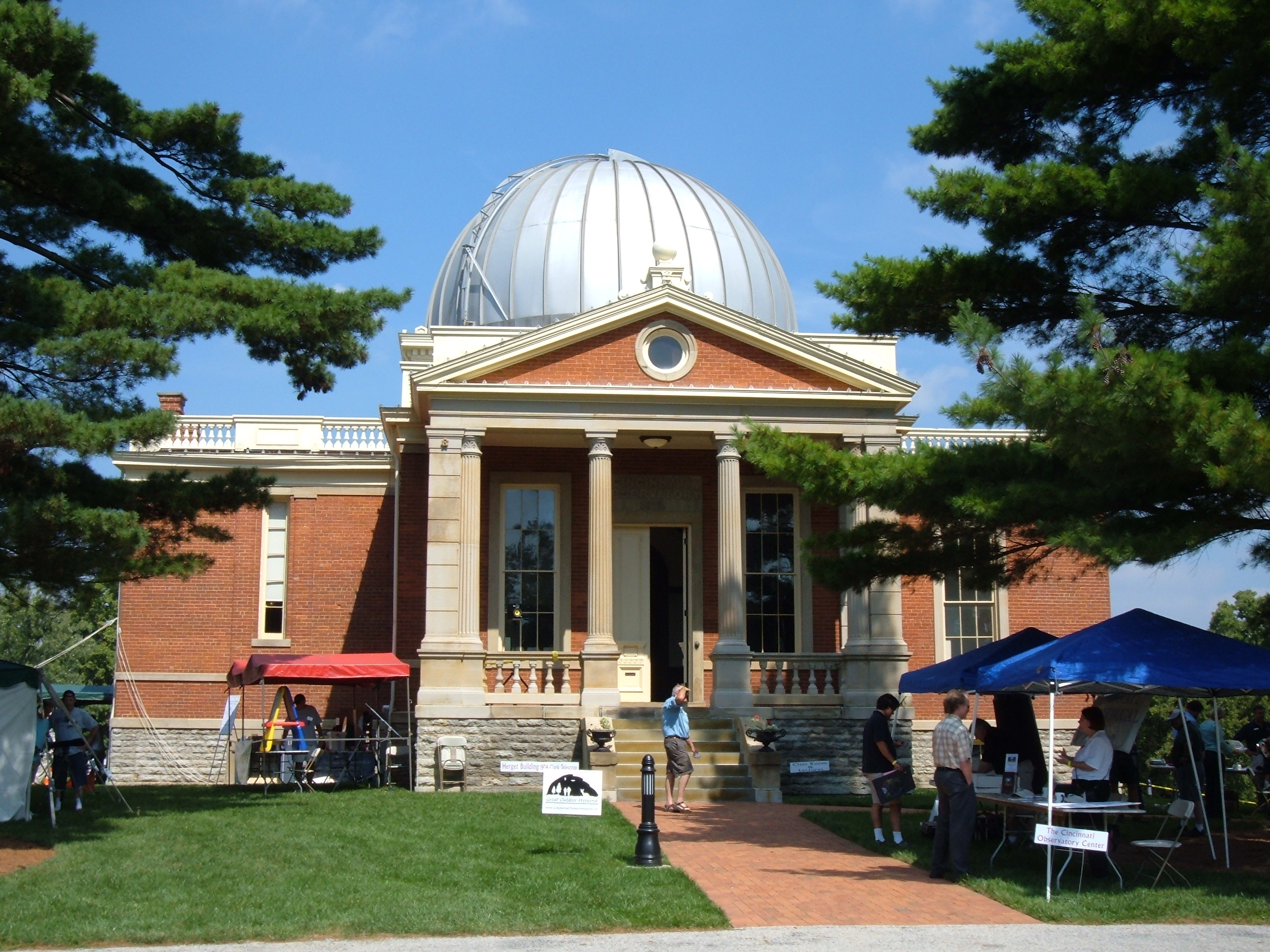 Original building at the Cincinnati Observatory, Cincinnati, Ohio. Taken by WKC.